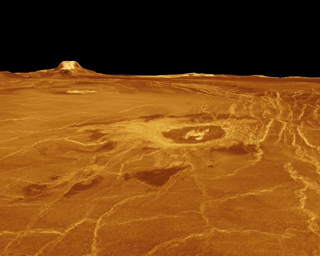 Original Caption Released with Image: A portion of western Eistla Regio is displayed in this three-dimensional perspective view of the surface of Venus. The viewpoint is located 1,310 kilometers (812 miles) southwest of Gula Mons at an elevation of 0.78 kilometer (0.48 mile). The view is to the northeast with Gula Mons appearing on the horizon. Gula Mons, a 3 kilometer (1.86 mile) high volcano, is located at approximately 22 degrees north latitude, 359 degrees east longitude. The impact crater Cunitz, named for the astronomer and mathematician Maria Cunitz, is visible in the center of the image. The crater is 48.5 kilometers (30 miles) in diameter and is 215 kilometers (133 miles) from the viewer's position. Magellan synthetic aperture radar data is combined with radar altimetry to develop a three-dimensional map of the surface. Rays cast in a computer intersect the surface to create a three-dimensional perspective view. Simulated color and a digital elevation map developed by the U.S. Geological Survey, are used to enhance small-scale structure. The simulated hues are based on color images recorded by the Soviet Venera 13 and 14 spacecraft. The image was produced at the JPL Multimission Image Processing Laboratory and is a single frame from a video released at the March 5, 1991, JPL news conference.